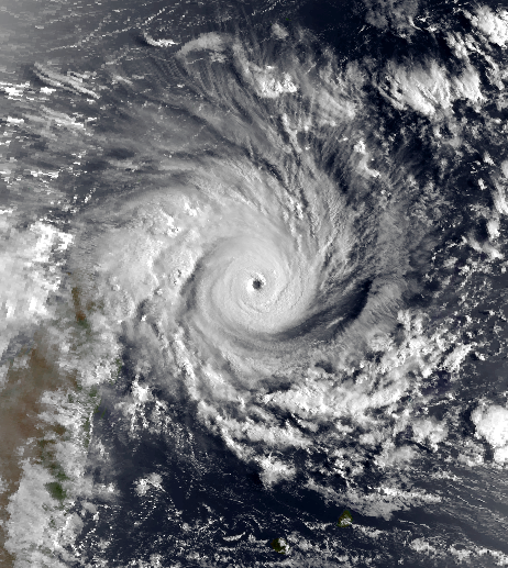 Intense Tropical Cyclone Nadia near peak intensity, March 22, 1994.